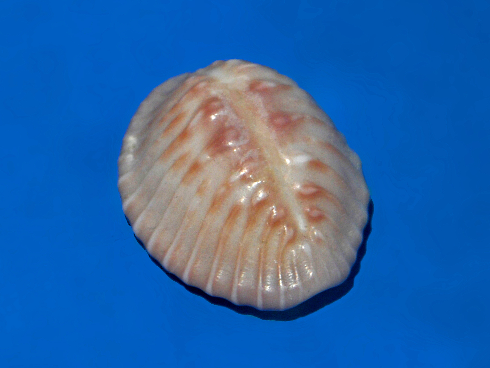 A Shell of Pusula radians from Nicaragua on display at the Museo Civico di Storia Naturale di Milano